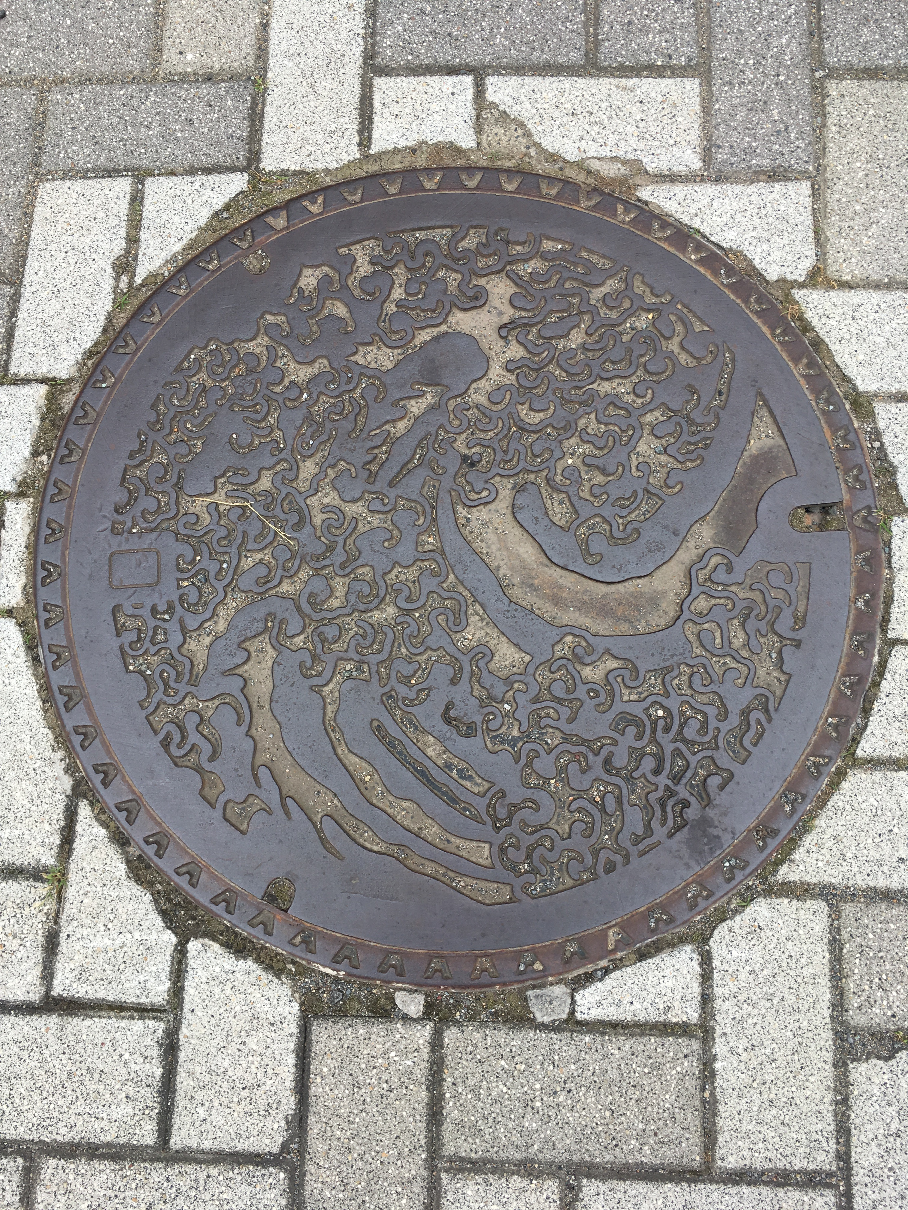 This is a manhole cover in Obuse Town, Nagano, with the design of Masculine Wave by Hokusai.